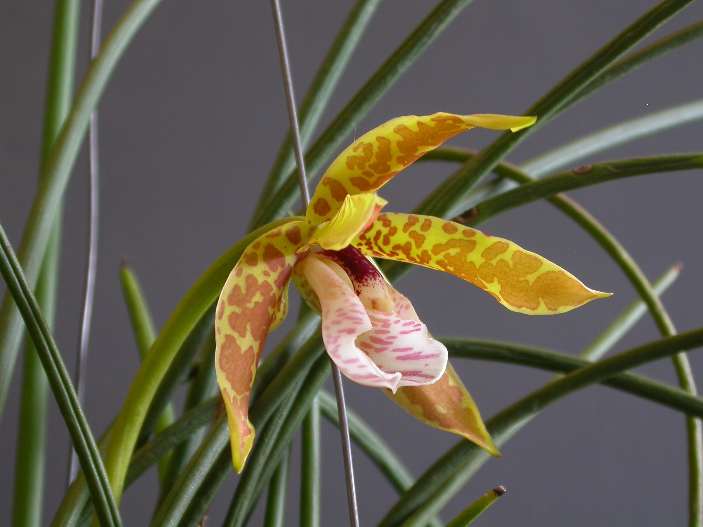 Scuticaria strictifolia